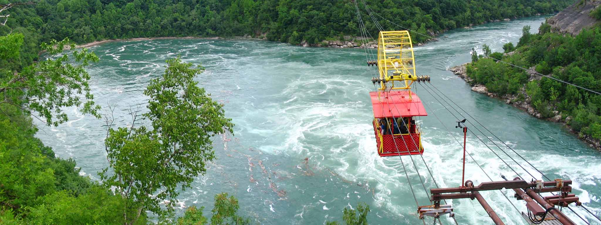 The Niagara Whirlpool with an approaching Spanish Aero Car.